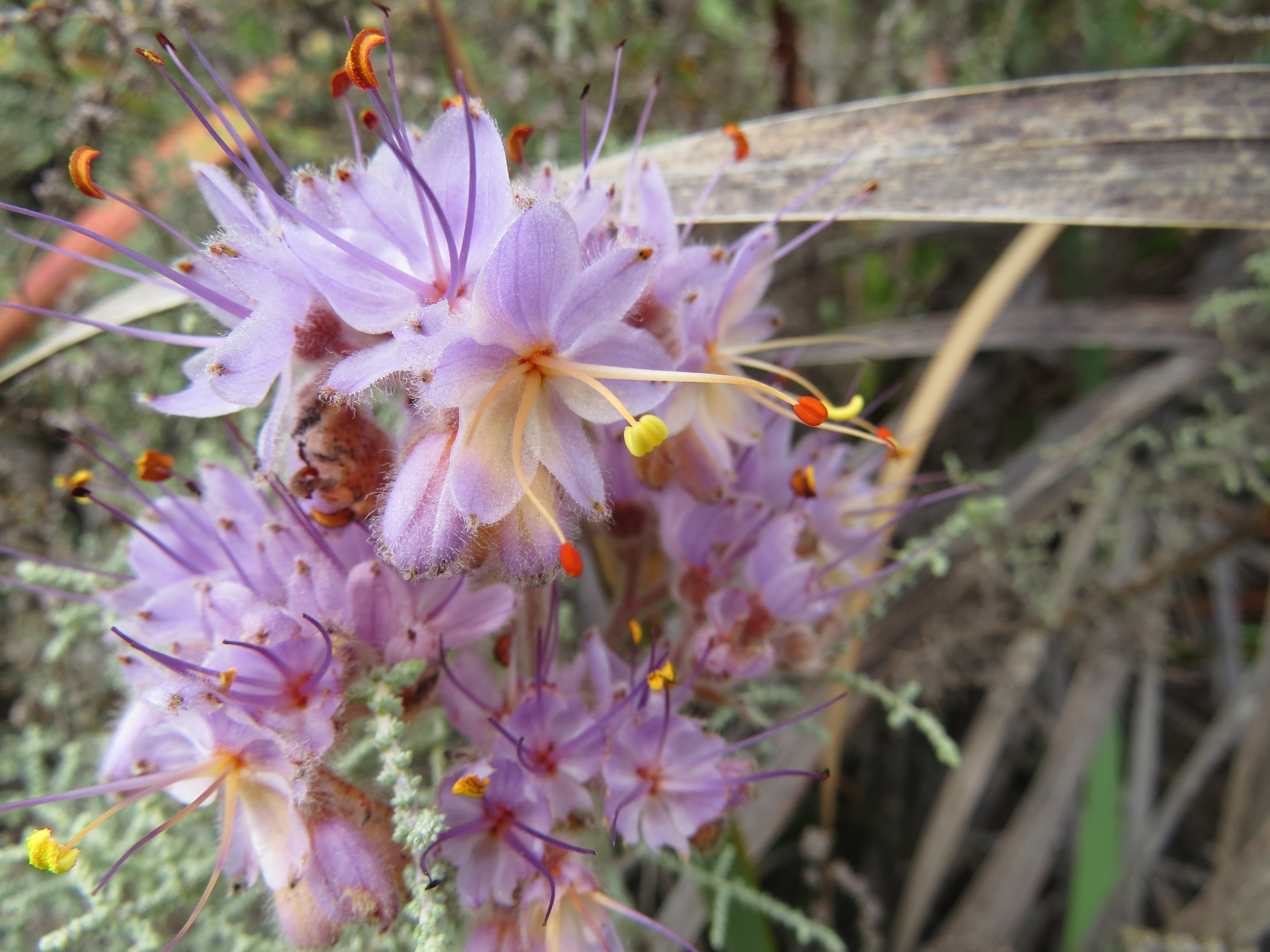 Dilatris ixioides Lam. Haemodoraceae.